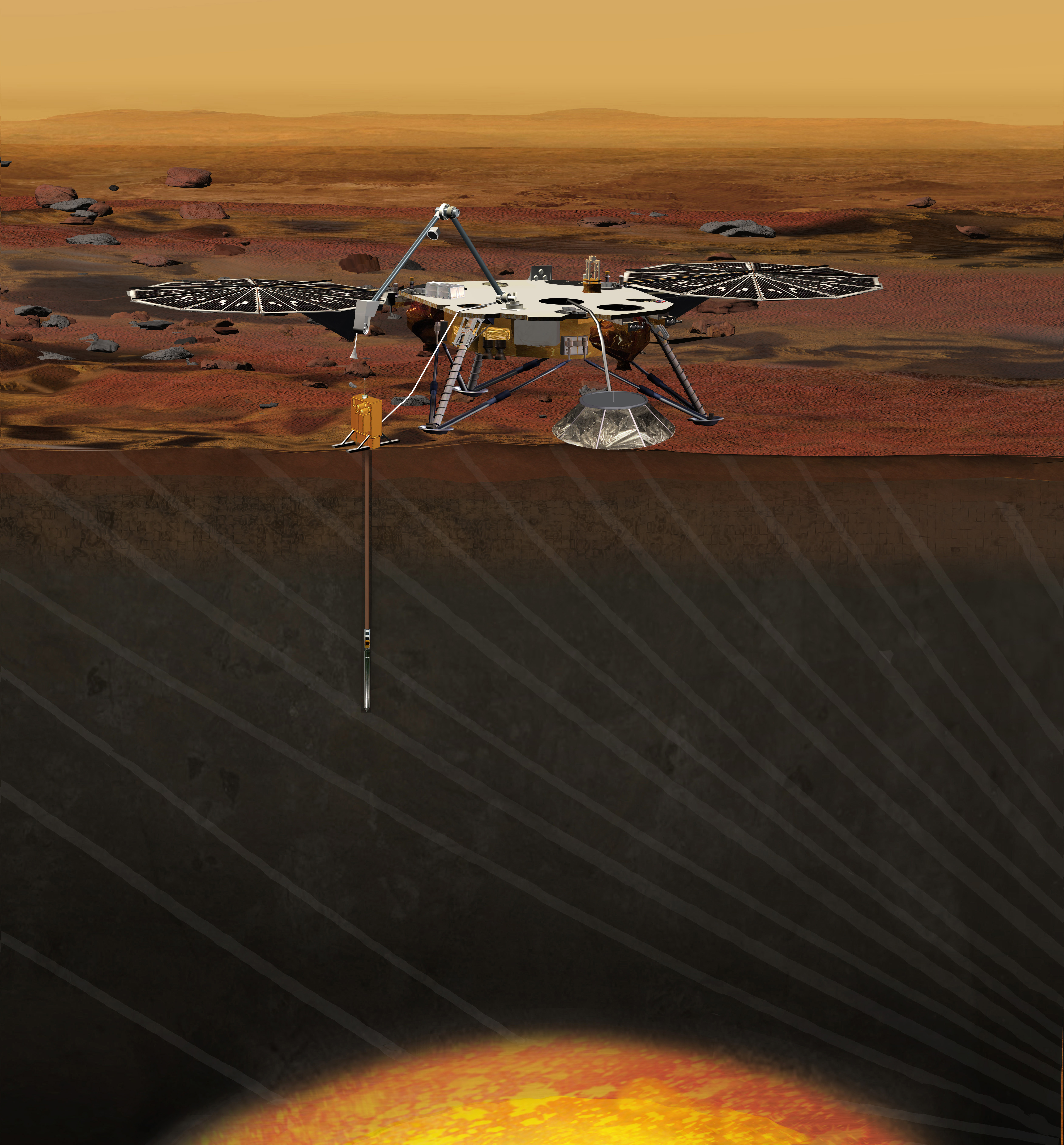 Artist rendition of the proposed InSight (Interior exploration using Seismic Investigations, Geodesy and Heat Transport) Lander. InSight is based on the proven Phoenix Mars spacecraft and lander design with state-of-the-art avionics from the Mars Reconnaissance Orbiter and Gravity Recovery and Interior Laboratory missions.